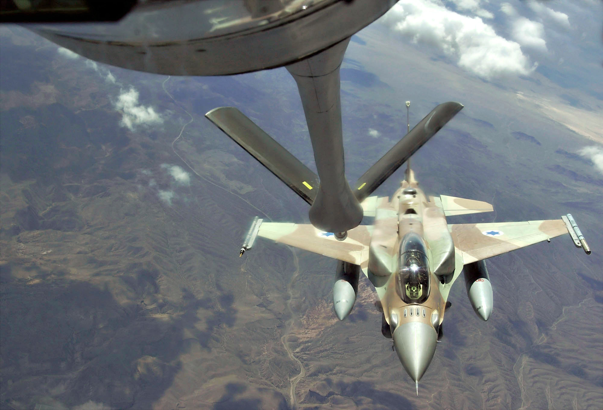 An Israeli Air Force F-16 from Ramon Air Base, Israel, moves into refueling position July 17, 2009 over the Nevada Test and Training Range during Red Flag 09-4.